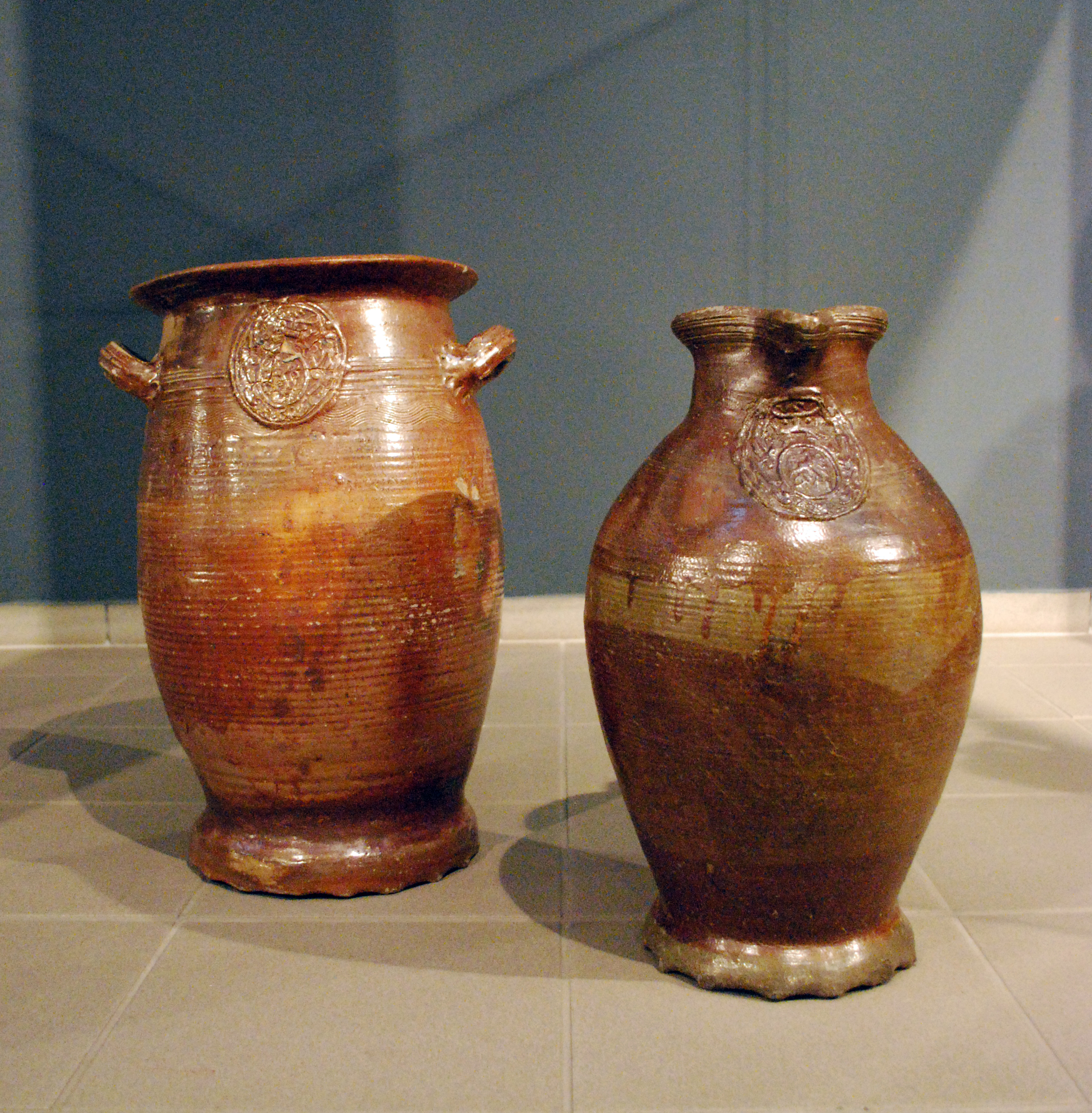 Langerwehe Stoneware "Baare" and "Pötzkanne" ca. 1600